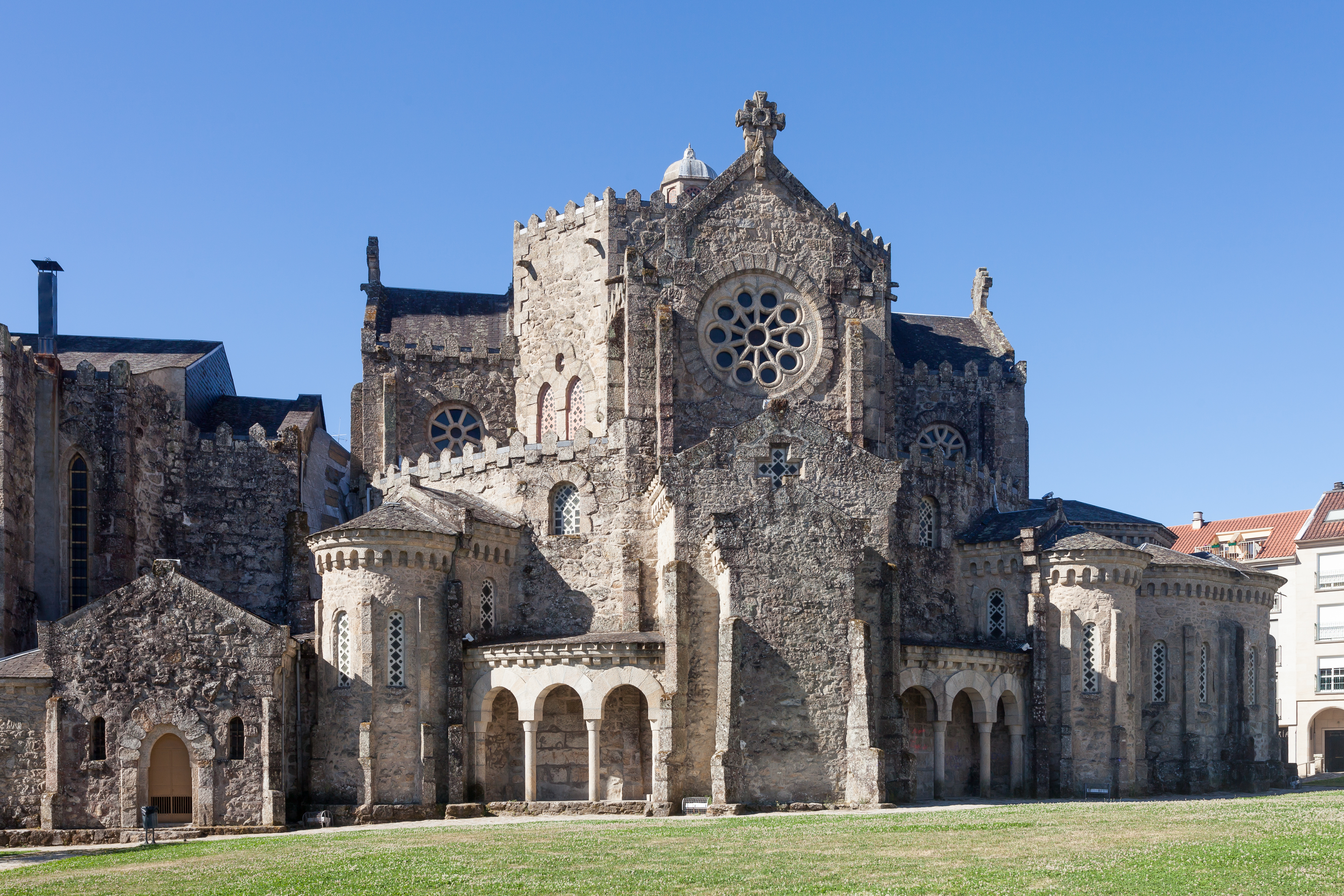 Temple of Vera Cruz, O Carballiño, Galicia (Spain). By Antonio Palacios